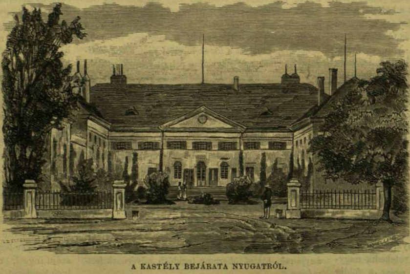 Alcsút, castle from the west